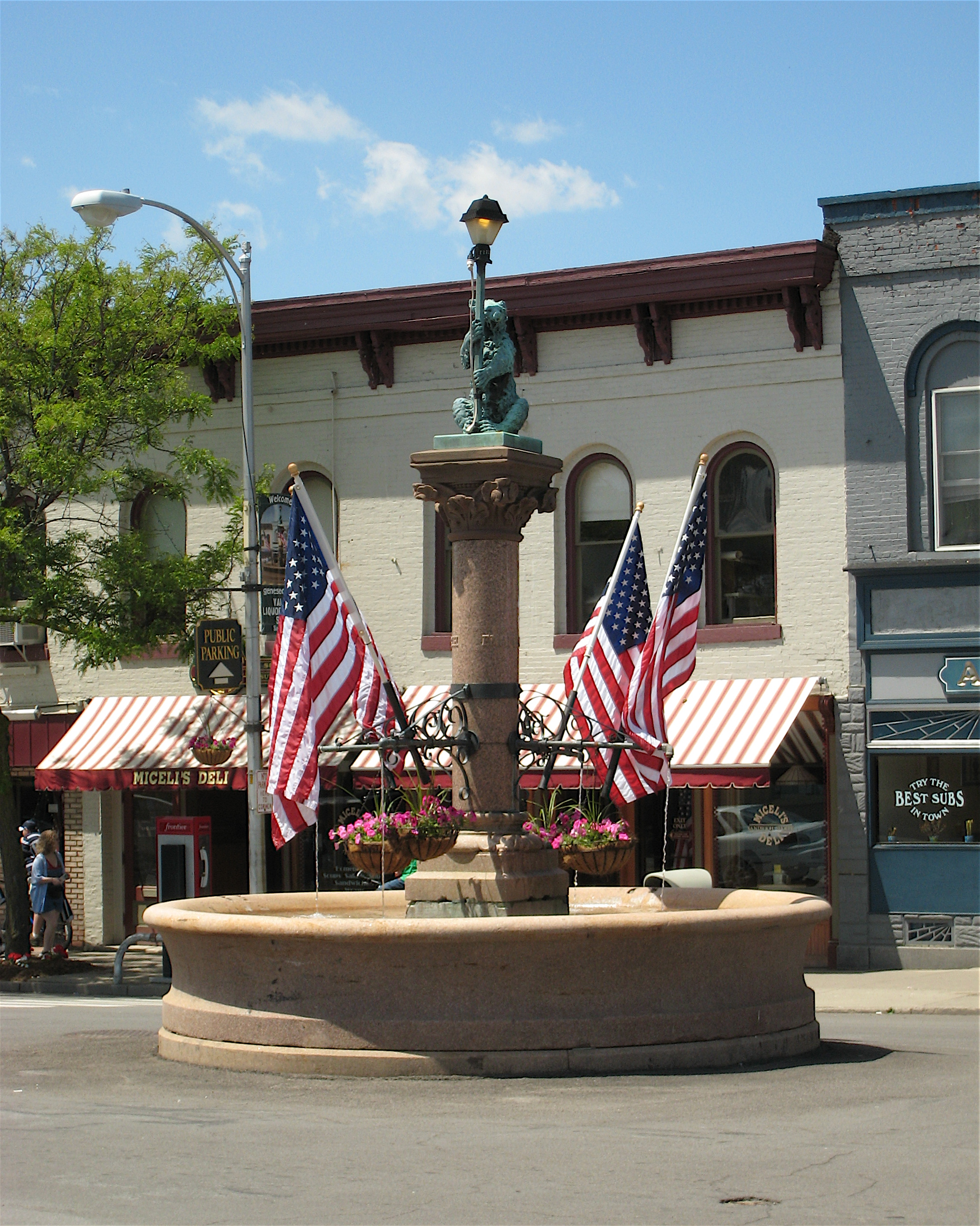 The Bronze Bear Fountain is the best-known symbol of Geneseo, New York. In this picture, the fountain is decorated with flags for Memorial Day.